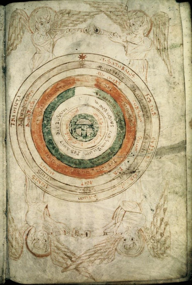 Basic schematic T-O mappa mundi within seven circles of the universe, surrounded by four horned angels, each holding a trumpet in MS. on vellum: Bede, De natura rerum. The circles are labelled, from outside in, Saturn, Jupiter, Mars, Sol, Venus, Mercury, Moon[?]. Shelfmark: MS. Canon. Misc. 560, fol. 23r